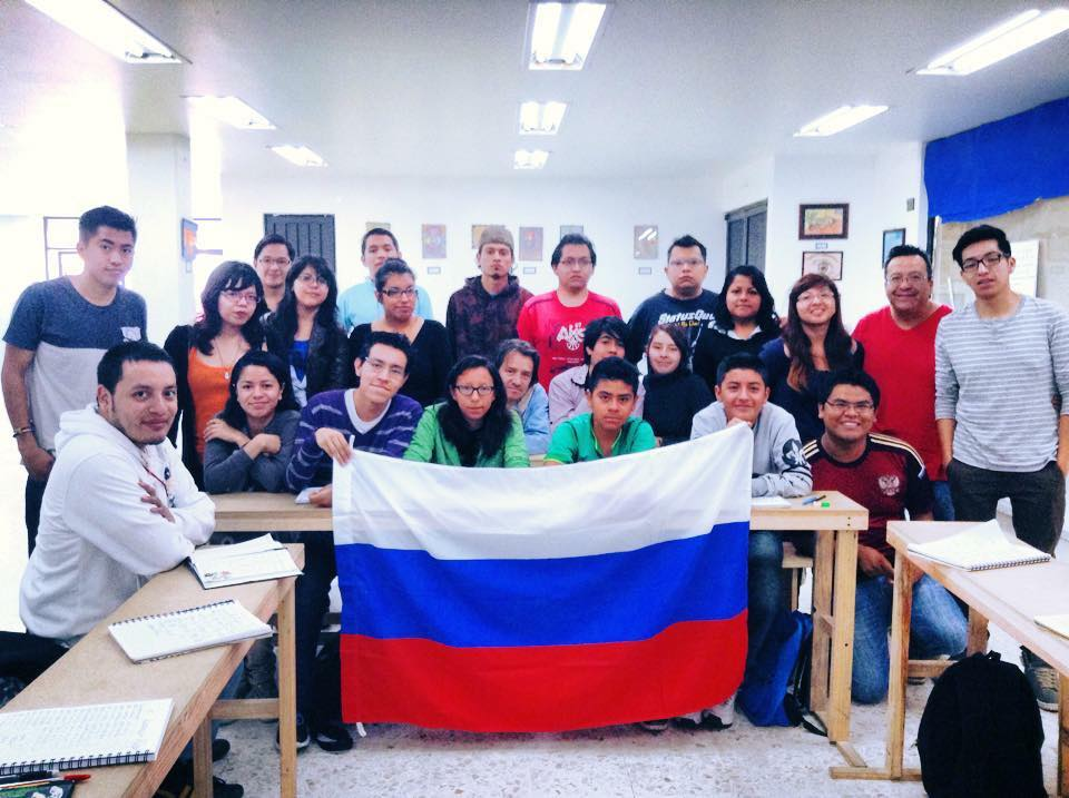 Russian language for free in Neza City.